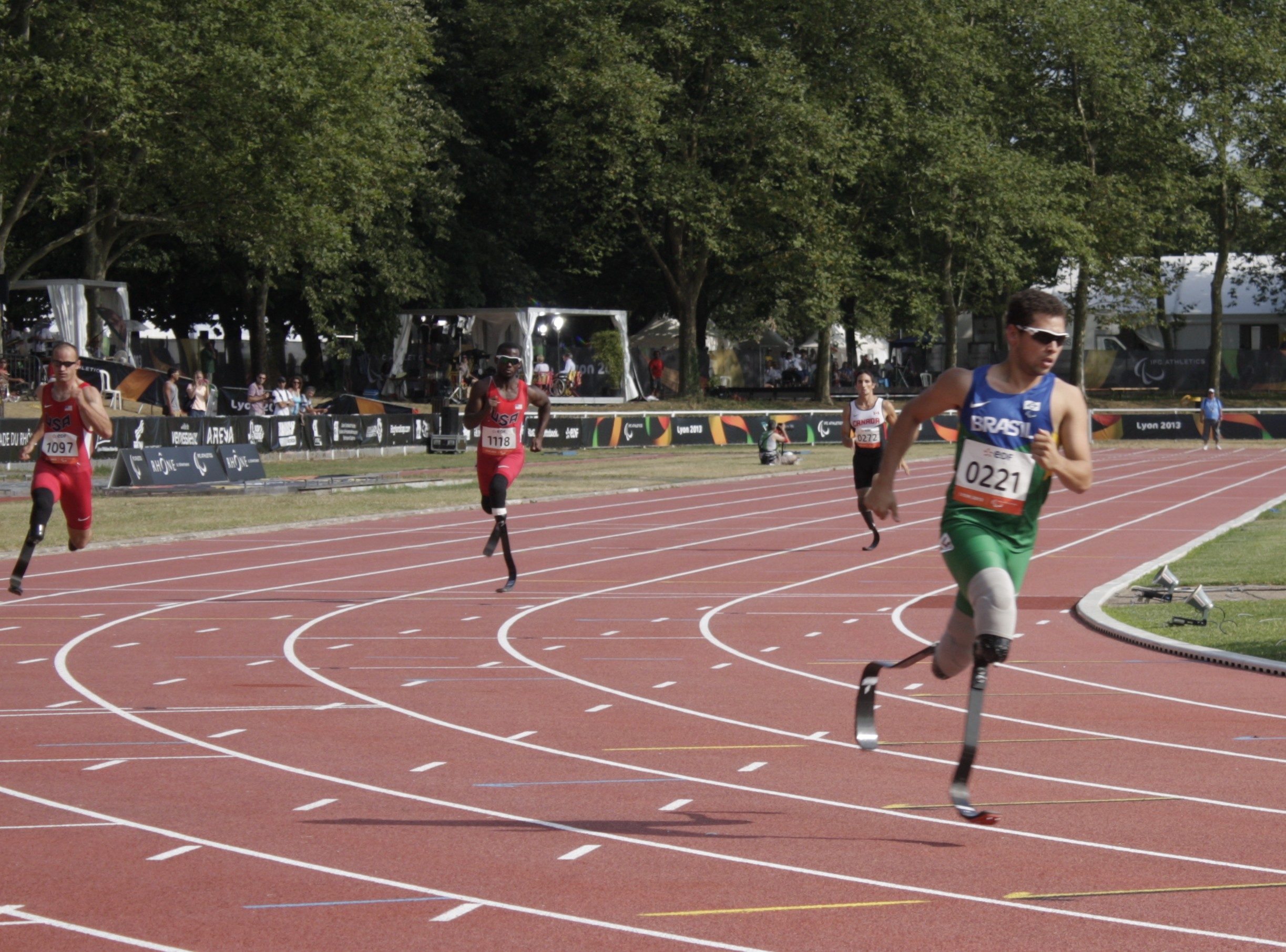 Alan Fonteles Cardoso Oliveira at the 2013 IPC Athletics World Championships (400 meters qualifications) Alan Oliveira (0221) of Brazil posts a personal best in the T44 400m qualifiers, competing in the same race are American athletes Rob Brown (1097) and Blake Leeper (1118) and Canada's Jackie Marciano (0272).